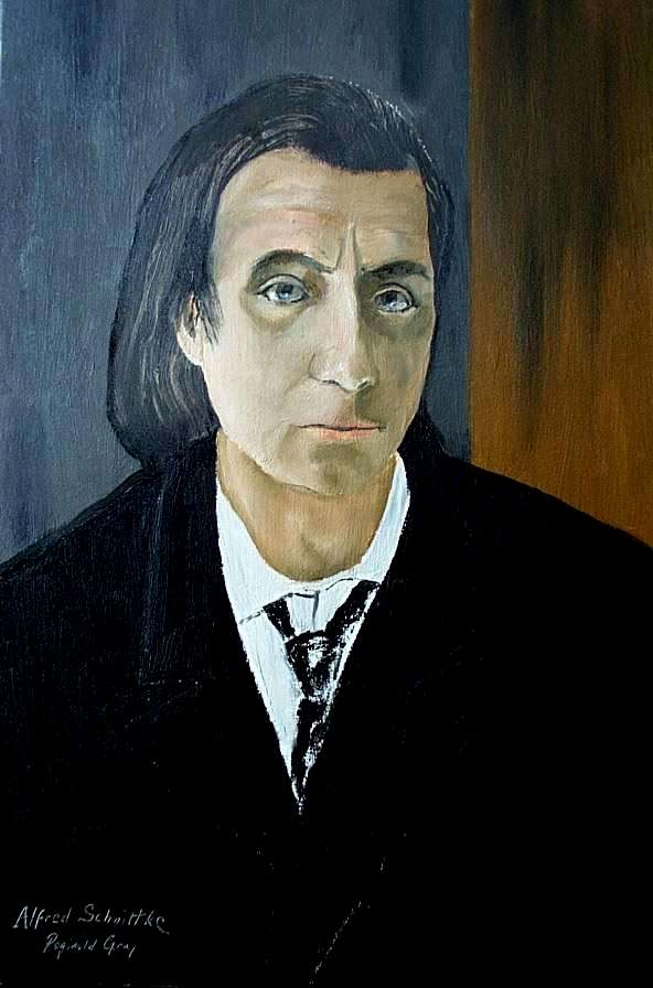 Painting on Canvas